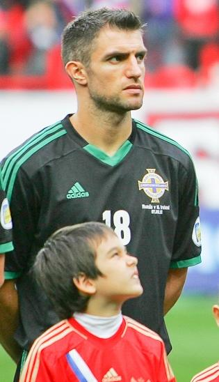 Aaron Hughes representing Northern Ireland against Russia in FIFA World Cup qualifier in 2012.